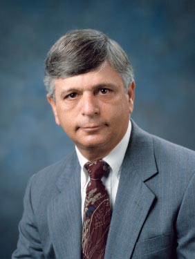 Jay H. Greene